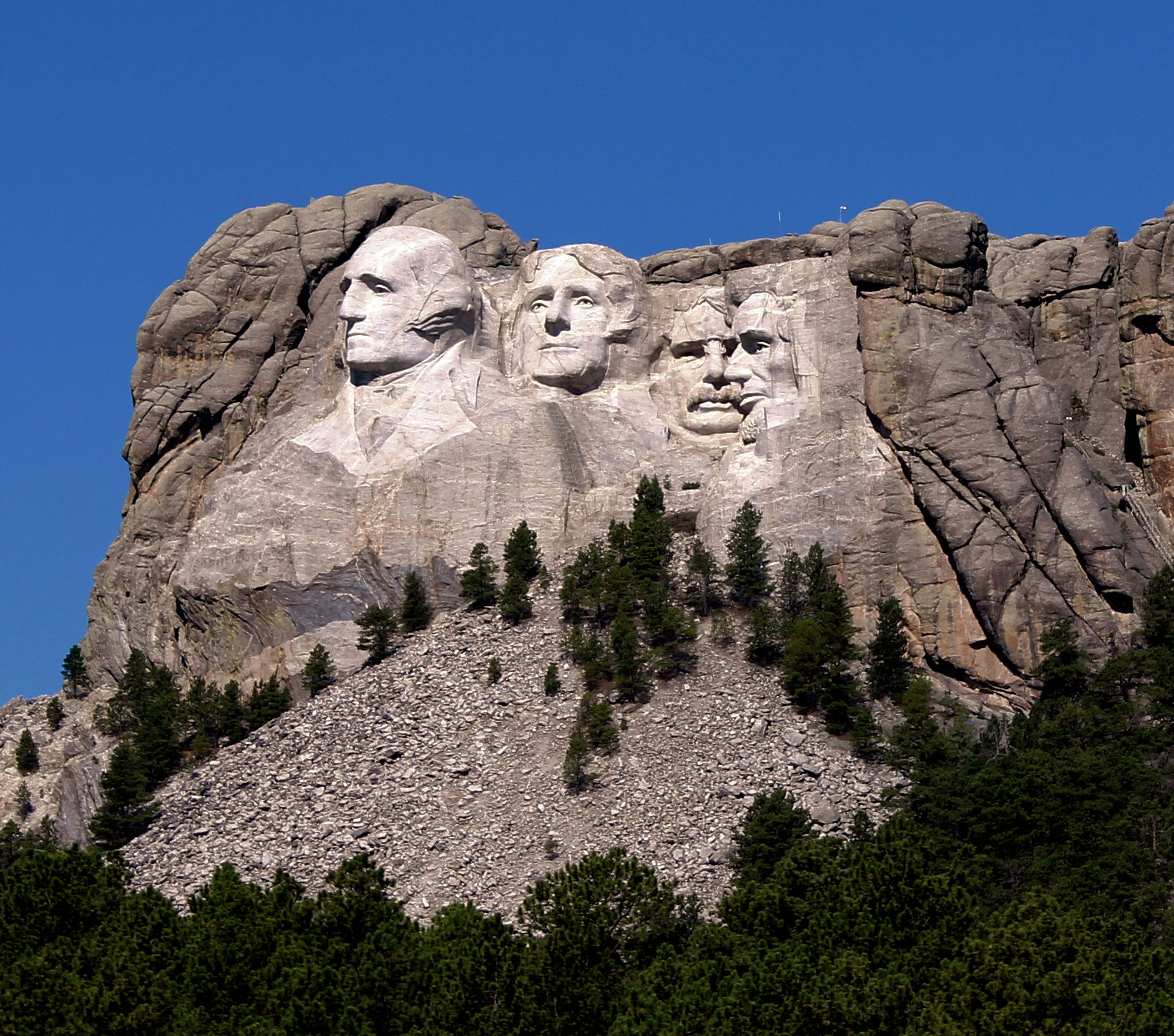 Mount Rushmore as seen from highway before entrance to the park.